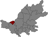 Location of la Riba in Alt Camp